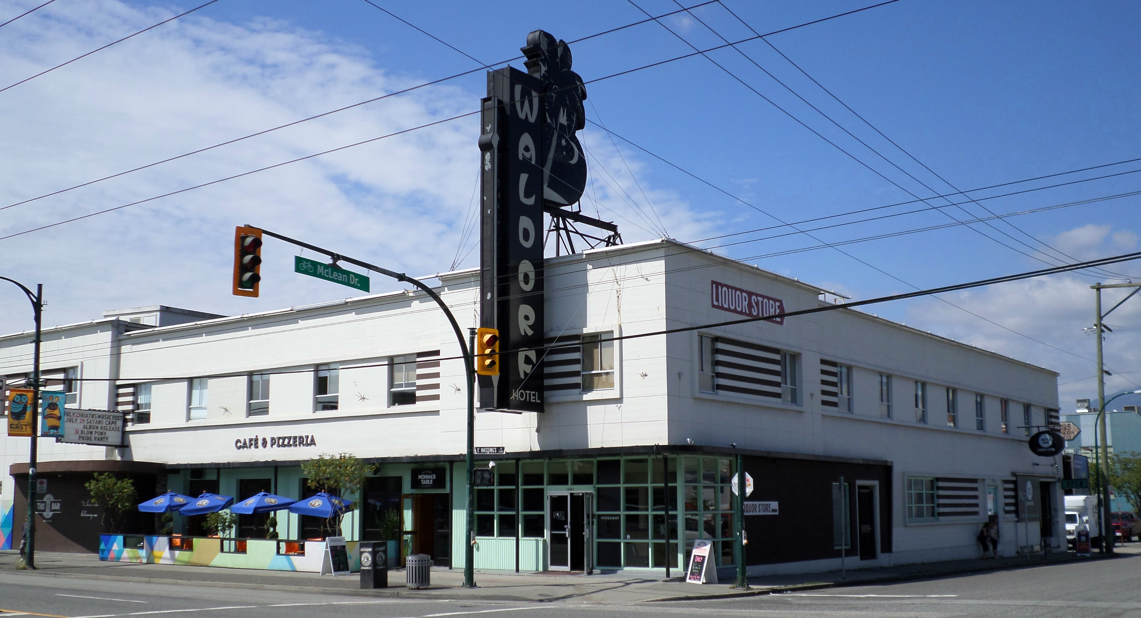 The Waldorf Hotel, located at 1489 E Hastings St, Vancouver, BC.